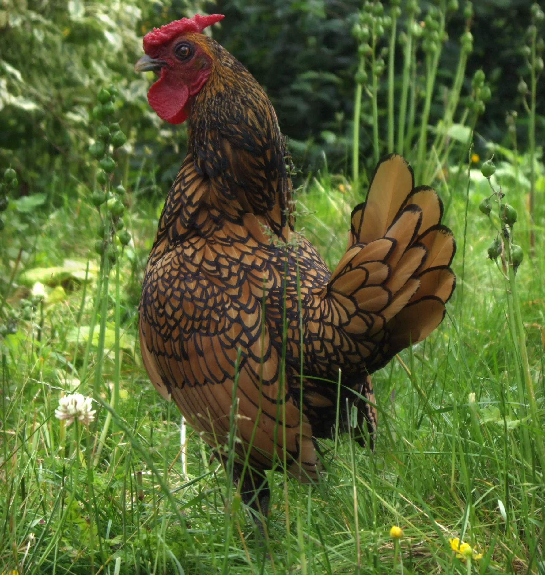 A Golden laced Sebright cockerel. Sebrights are a bantam breed of chicken.